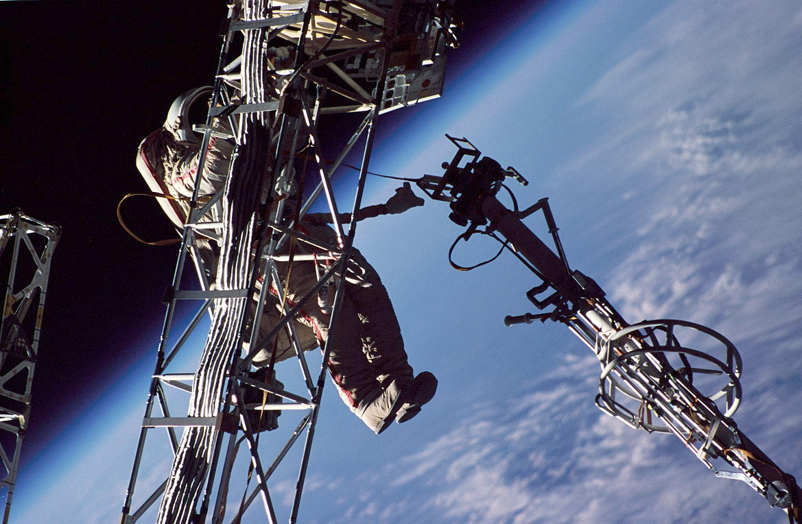 Cosmonaut Yury Onufriyenko stands on the Sofora truss of the Russian space station Mir during EO-21.